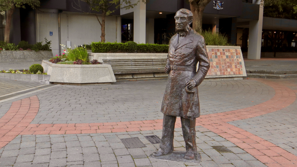 Statue of Captain John Fane Charles Hamilton (1822-1864). Hamilton, New Zealand. 8 April 2017.